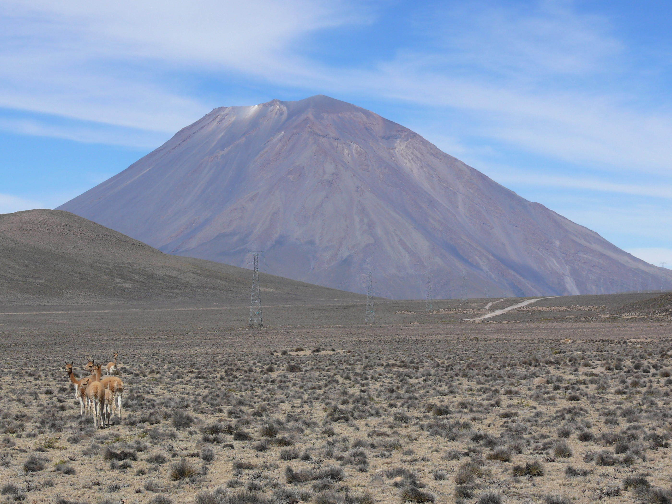 El Misti, seen from Reserva Nacional Salinas y Aguada Blanca (Road AR-116)